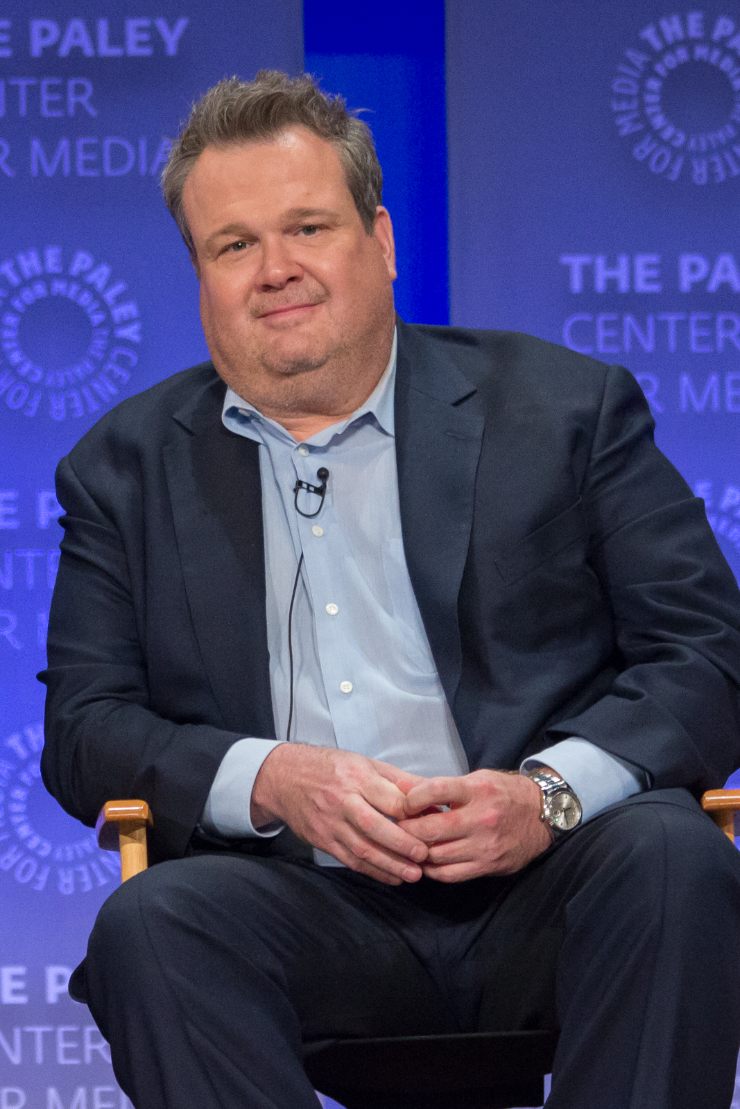 Actor Eric Stonestreet at the 2015 PaleyFest for the show "Modern Family"